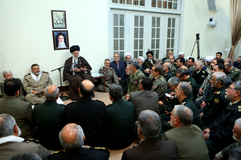 Senior commanders of the Islamic Republic of Iran's armed forces met with the Leader of the Revolution, Ayatollah Khamenei for the new Iranian year.